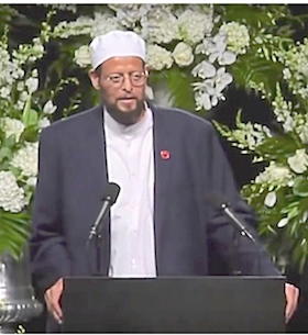 Louisville, KY.